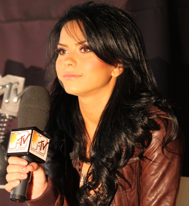 Inna, during an interview for MTV Europe (in September 2009)